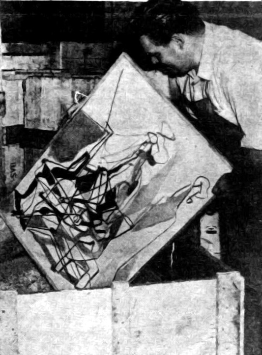 PUZZLED attendant, Stan Varley, of the Queensland National Art Gallery, unpacks 'Light and the Nude/' by Parisian artist Eugene Nestor de Kermadec. The painting is included in the collection French Painting Today to be shown at the gallery.